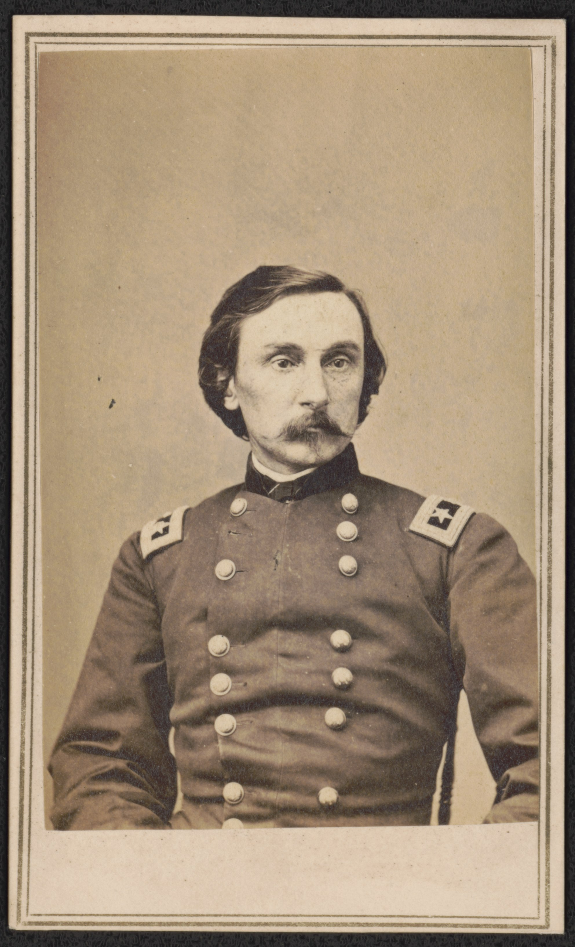 Title: Major General Gouverneur Kemble Warren of General Staff U.S. Volunteers Infantry Regiment in uniform] / From photographic negative in Brady's National Portrait Gallery Abstract/medium: 1 photograph : albumen print on card mount ; mount 11 x 6 cm (carte de visite format)